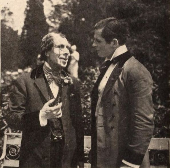 Still from the American historical drama film Disraeli (1921) with George Arliss and Reginald Denny, on page 64 of the July 23, 1921 Exhibitors Herald.